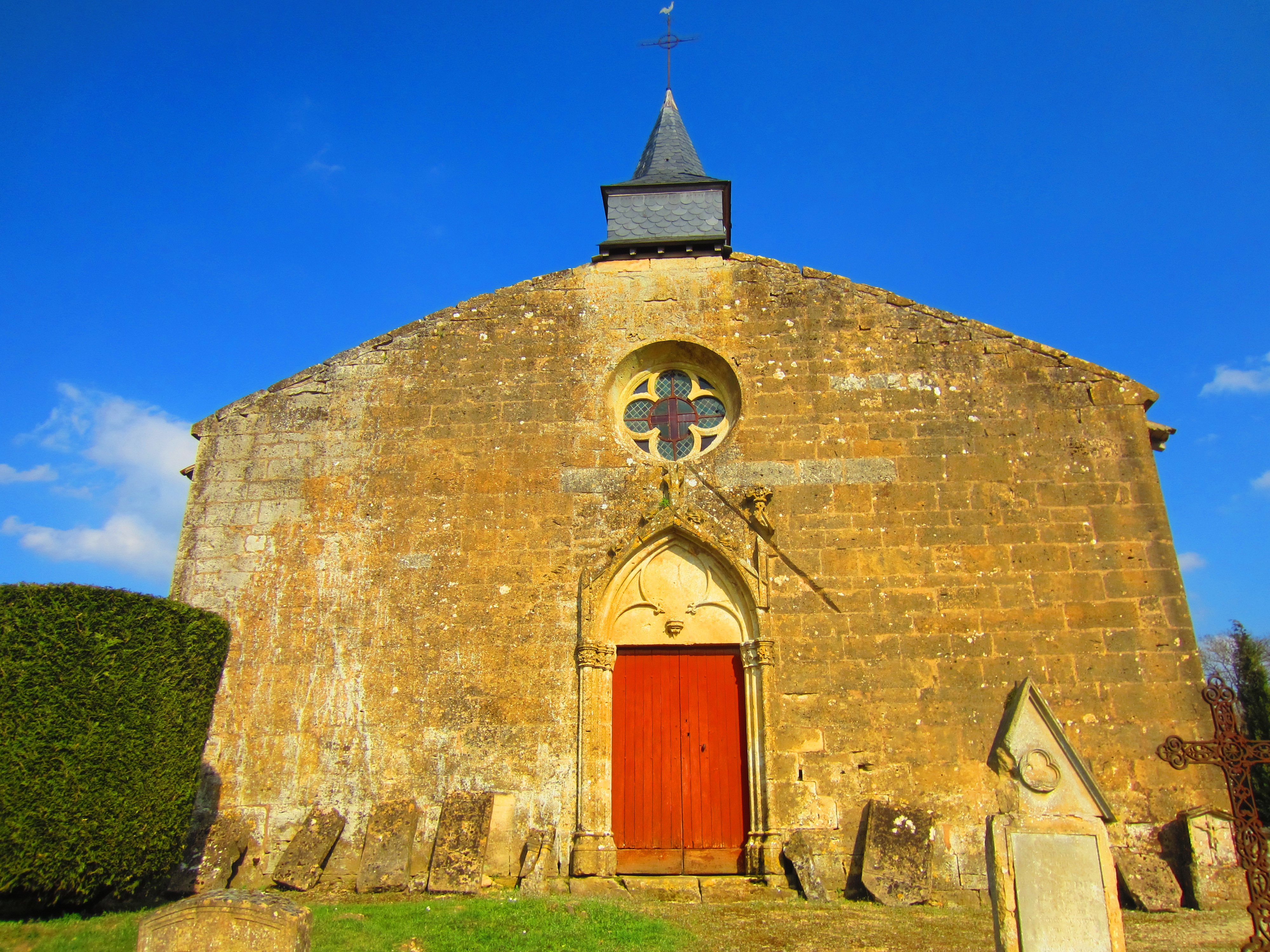 Marville St Hilaire church